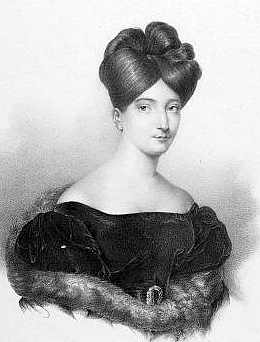 French opera singer Henriette Méric-Lalande (1798-1867).